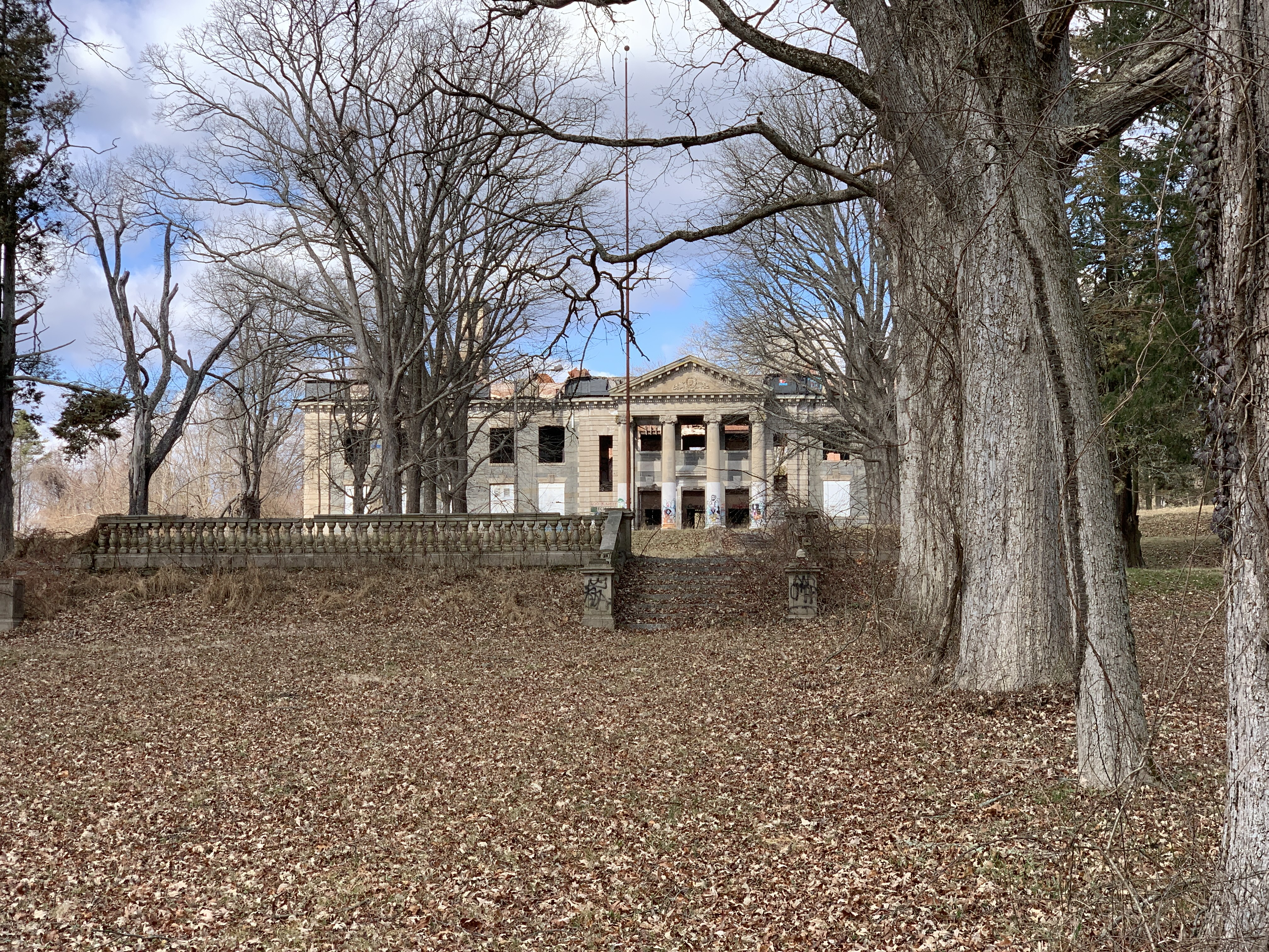 The "Memorial Hall" building after the fire occurred on September 21st, 2014.